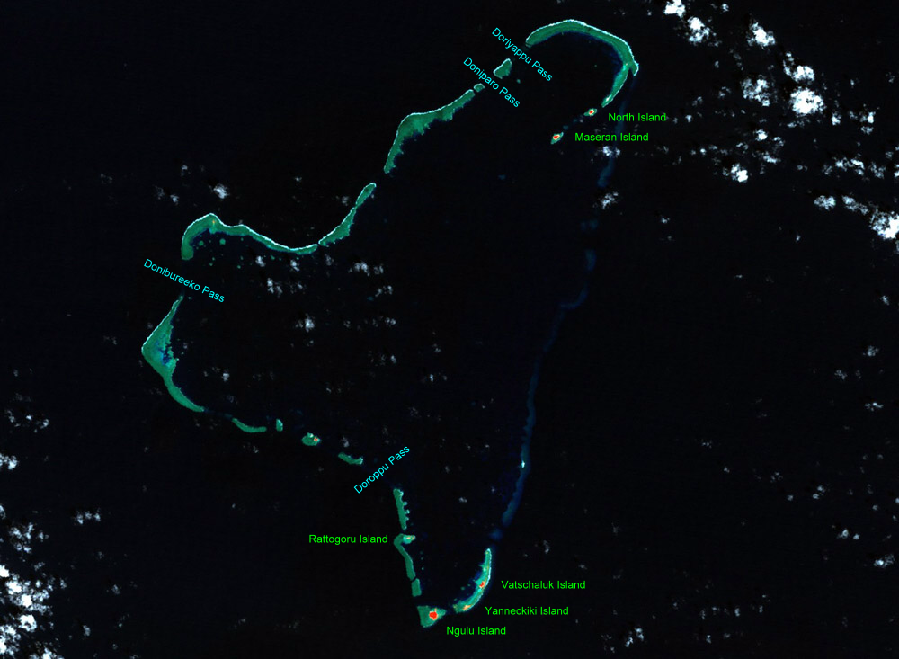 Ngulu Atoll, Yap State, Federated States of Micronesia, Central Pacific Ocean False Color NASA Landsat 7 image, Path 104 Row 054 Geographical Names added by uploader, using Photo Impact 6